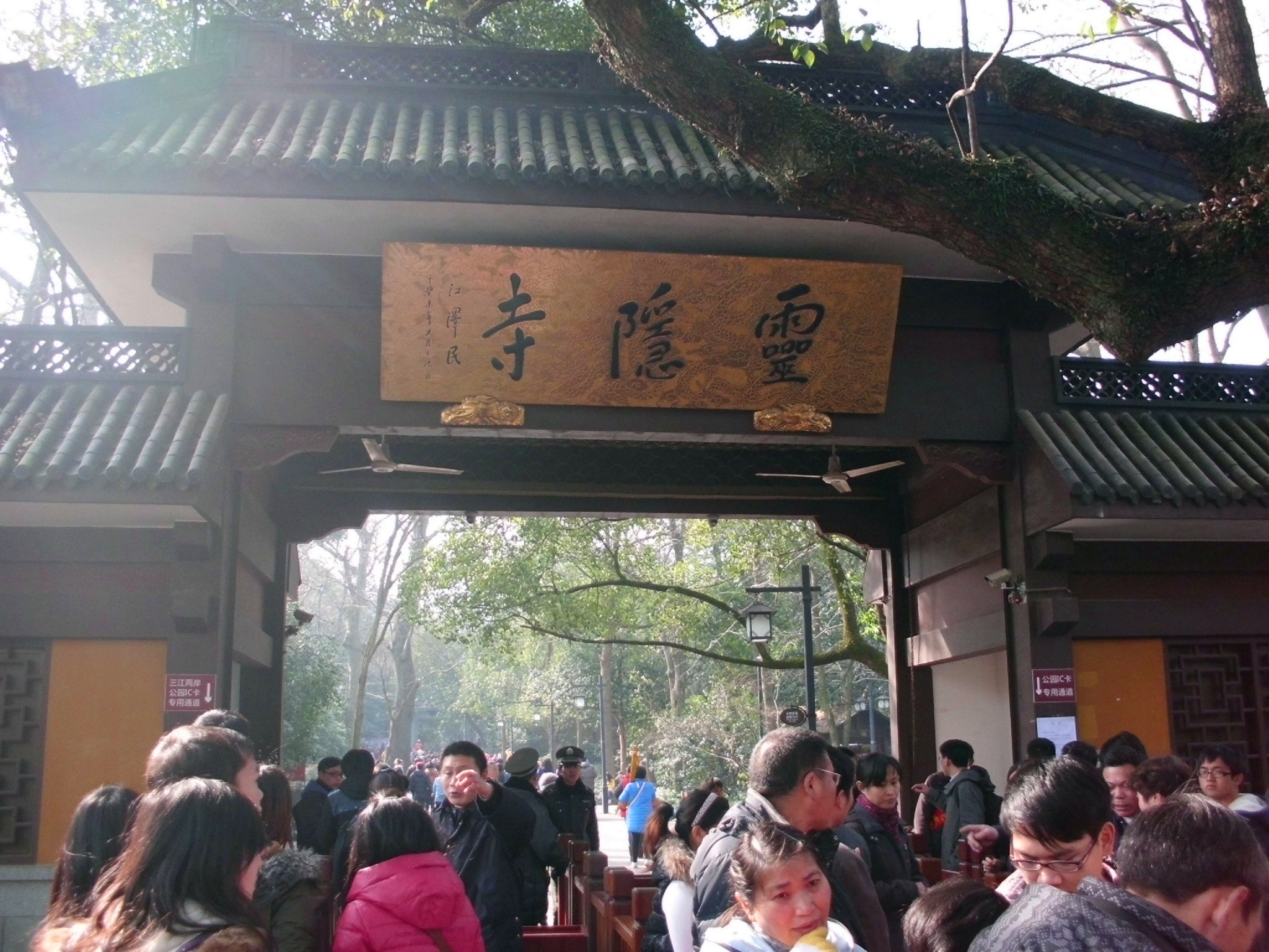 Lingyin Temple